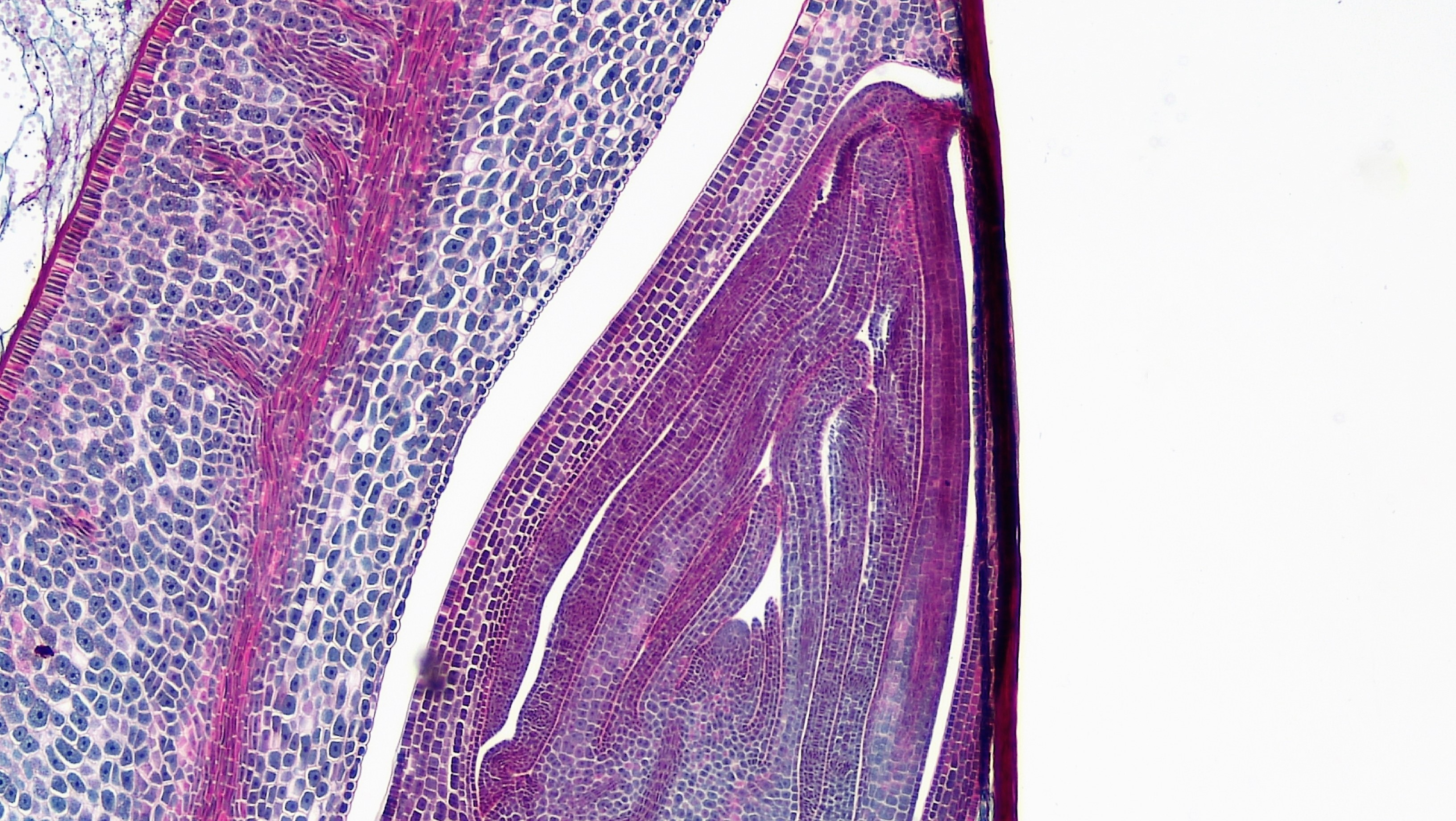 cross section: Zea mays embryo common name: corn grain magnification: 40x Triarch quadruple stain Berkshire Community College Bioscience Image Library